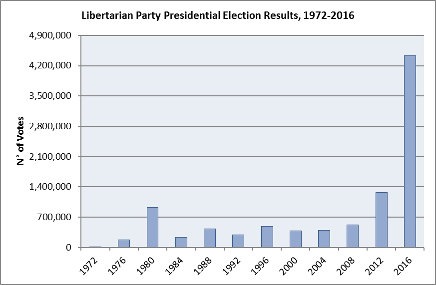 Libertarian Party of the US Presidential Election Results, 1972 - 2016